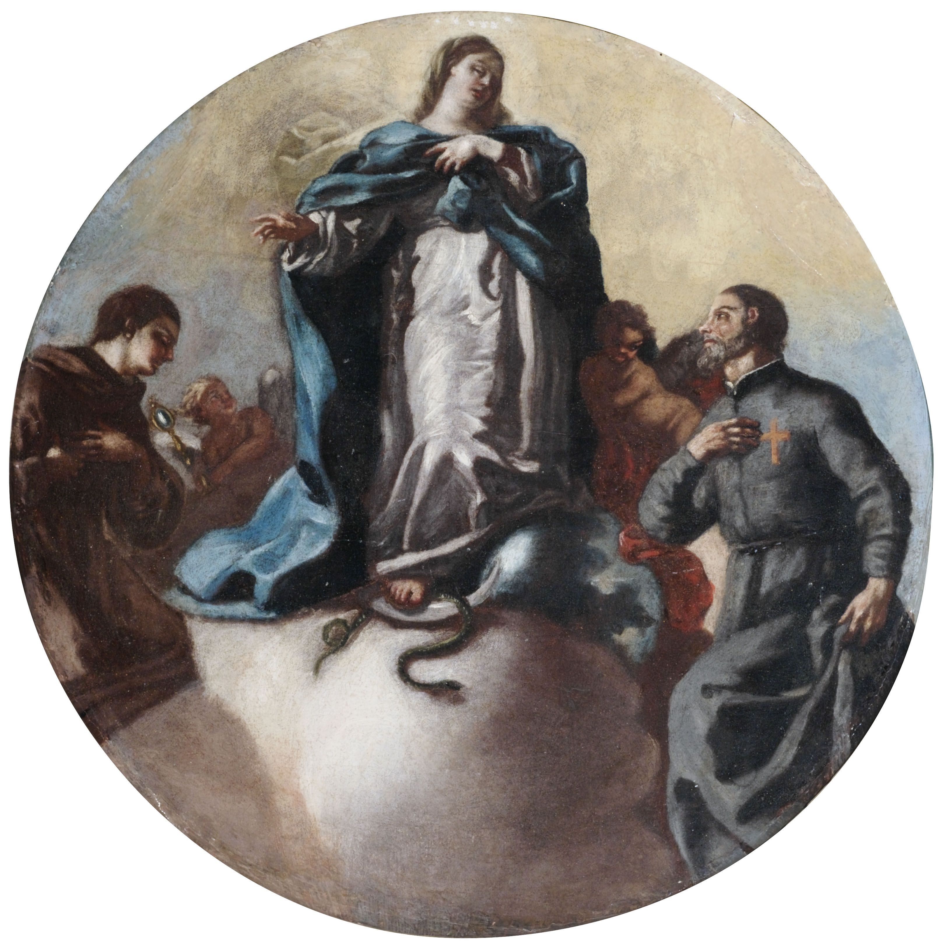 The Immaculate Virgin with Saint Anthony and Saint Camillo of Lellis